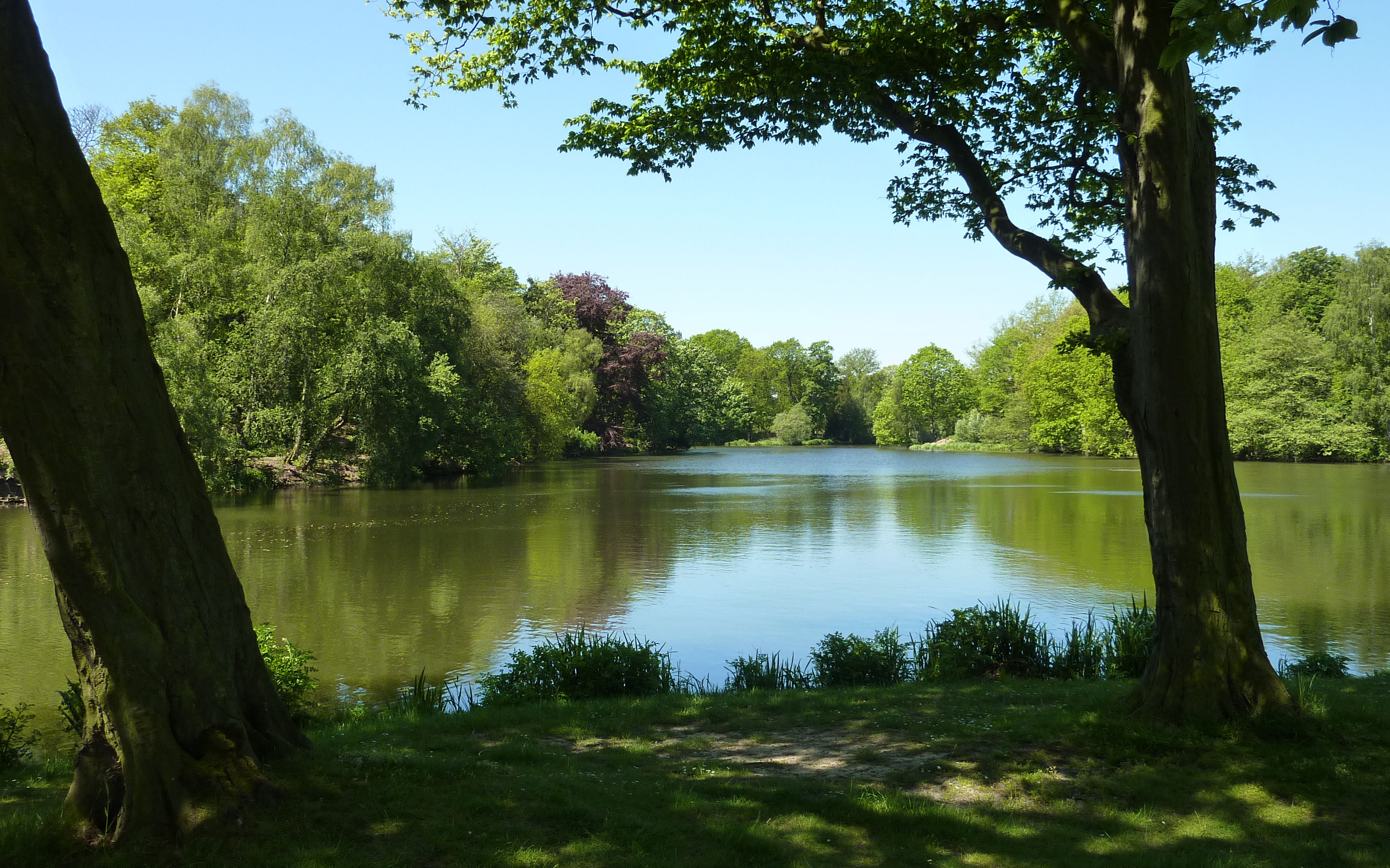 The Lower Lake in the Parkland at Nostell Priory (NT) in Yorkshire.